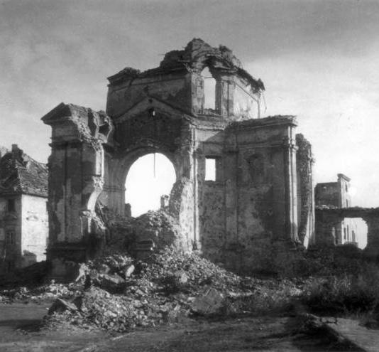 Ruins of St. Casimir Church in Warsaw. During the Warsaw Uprising (1944), the 17th century church was used as a hospital.[1] This made it a frequent target for bombing by the Germans.[1]